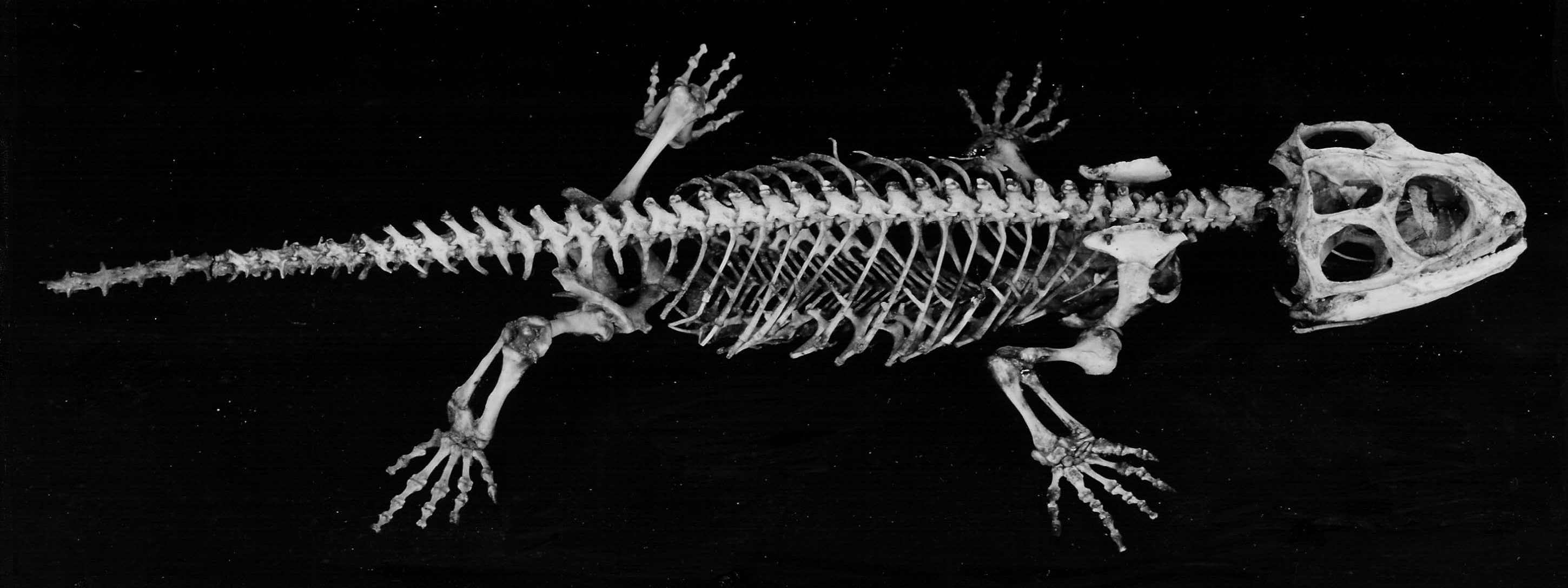 Specimen of Sphenodon punctatus LH288 held at the Auckland War Memorial Museum.